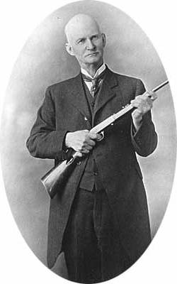 John Browning (1855 – 1926) holding a Browning semi-auto .22 rimfire rifle.